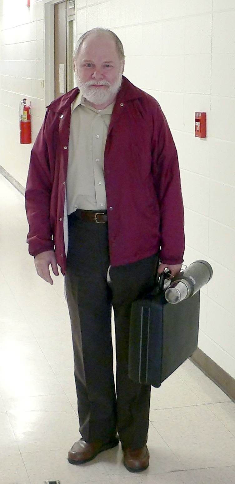 David L. Mills Taken by myself (Raul654) on April 27, 2005